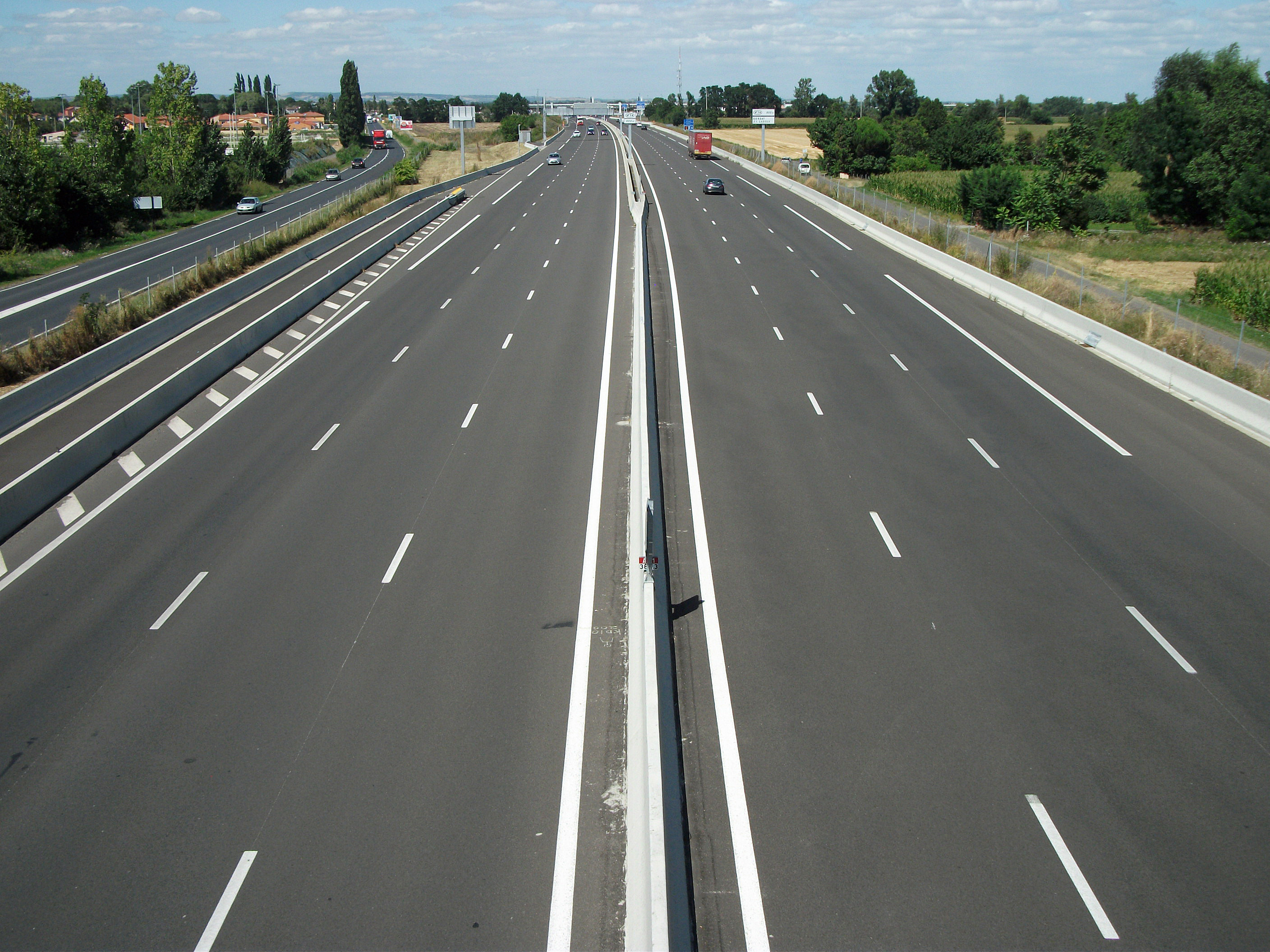 A71-A89 autoroute in Gerzat, direction Paris/Bordeaux. [11475]